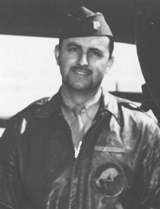 Captain David M. Jones, pilot of Plane #40-2283 of Doolittle's Raiders.